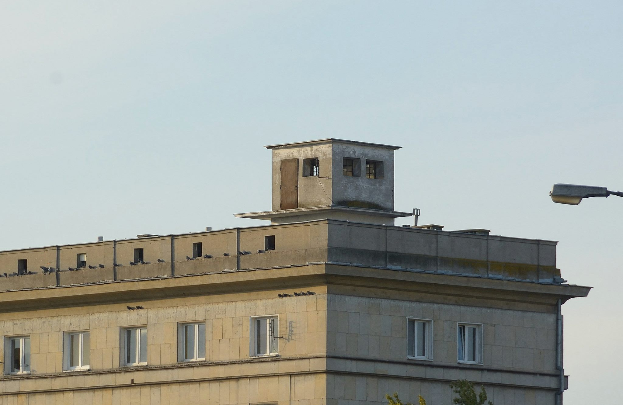 AA Viewing Tower Point of Civil Defence on a building in Warsaw